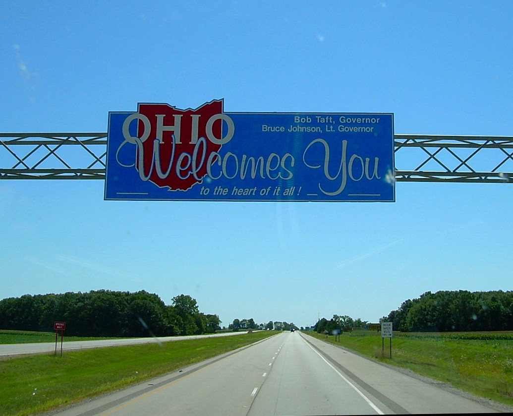 Ohio state welcome sign, along US Route 30, entering from Indiana.